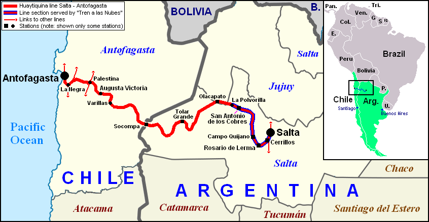 Railway map of the Salta–Antofagasta line (Huaytiquina) within Argentina and Chile. Red line with blue dashes represents the route of the Tren a las Nubes. The names of Chilean regions and Argentine provinces (in blue the ones served by the line) are shown in the map. On the right corner, a map of South America highlighting Argentina and Chile, shows the line (the little blue strip) within the continent.